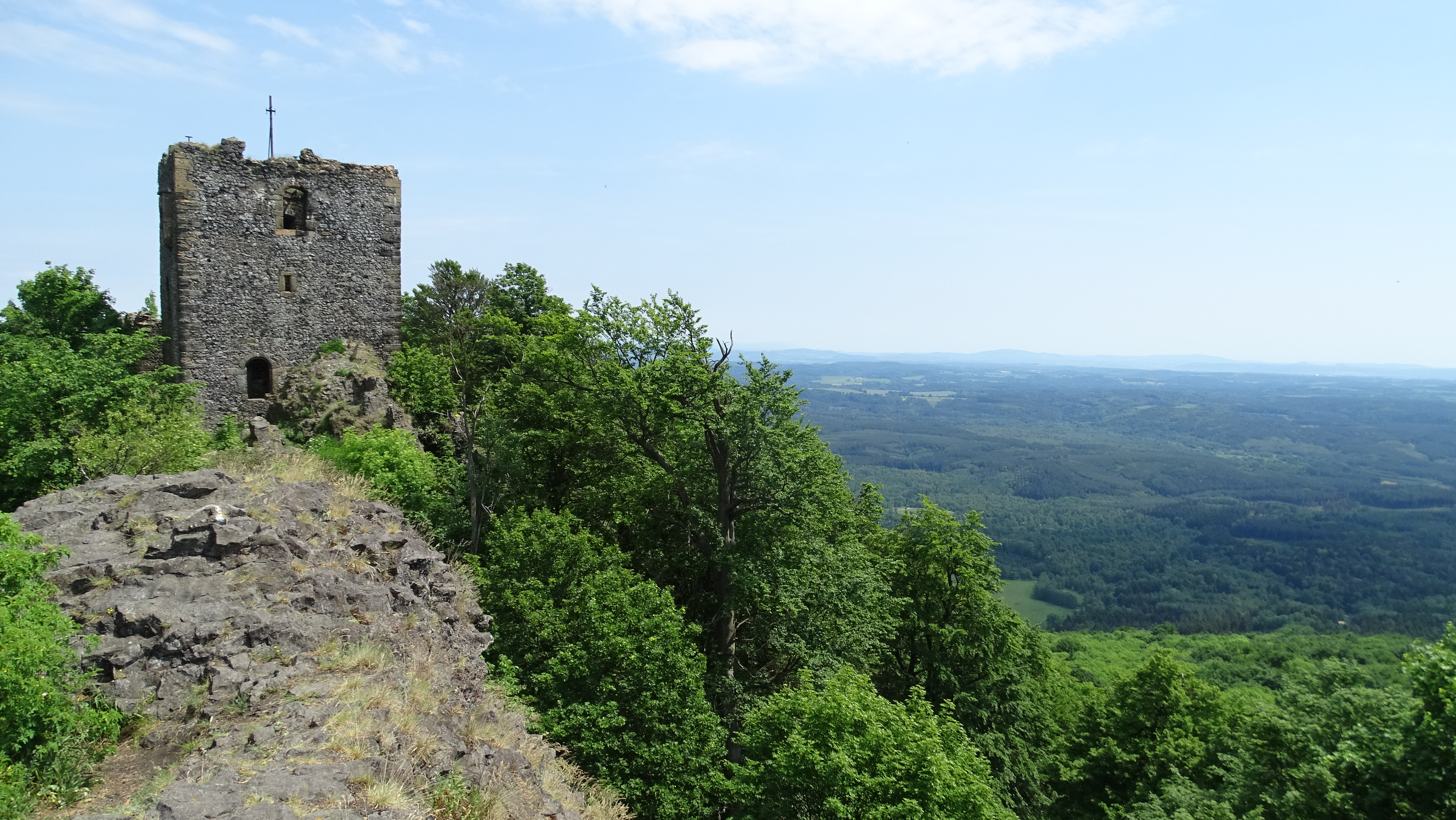 Ralsko fortress, Northern Bohemia, Czech Republic